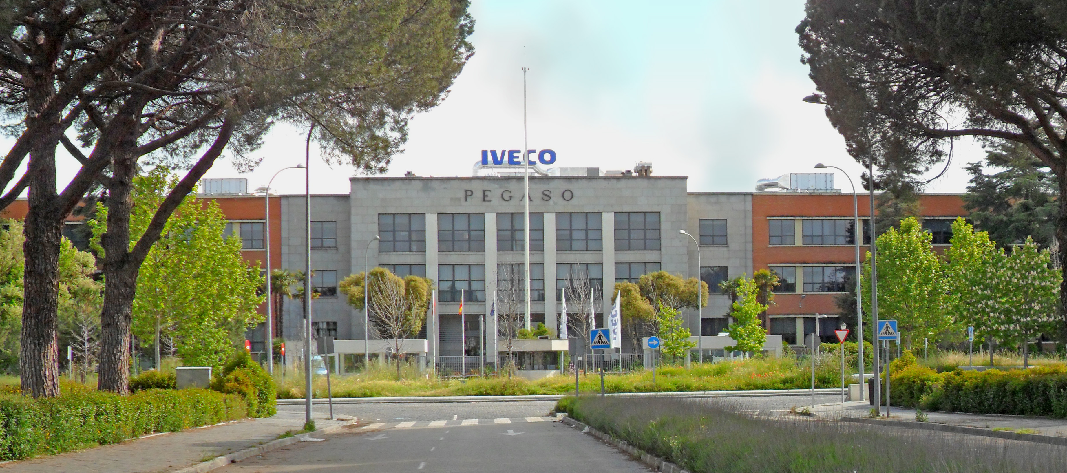 Entrance of Iveco (formerly Pegaso) factory in Madrid (Spain). Built towards 1955.